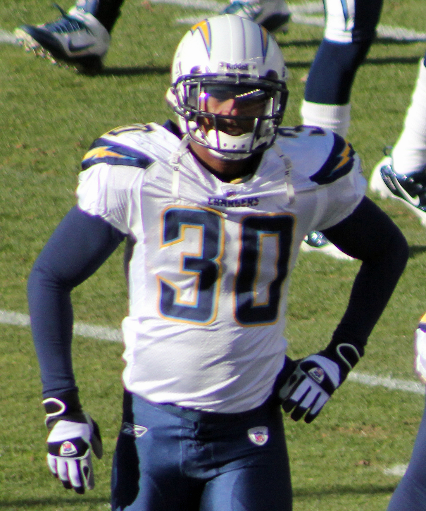 Donald Strickland, a player on the San Diego Chargers American footbal team.